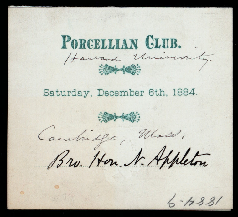 MENU [held by] PORCELLIAN CLUB [at] "HARVARD UNIVERSITY, CAMBRIDGE, MA", held in The Buttolph collection of menus, NYPL. Digital Image ID: 474167. Digital Record ID: 269517. Additional metadata at the NYPL website, link below.